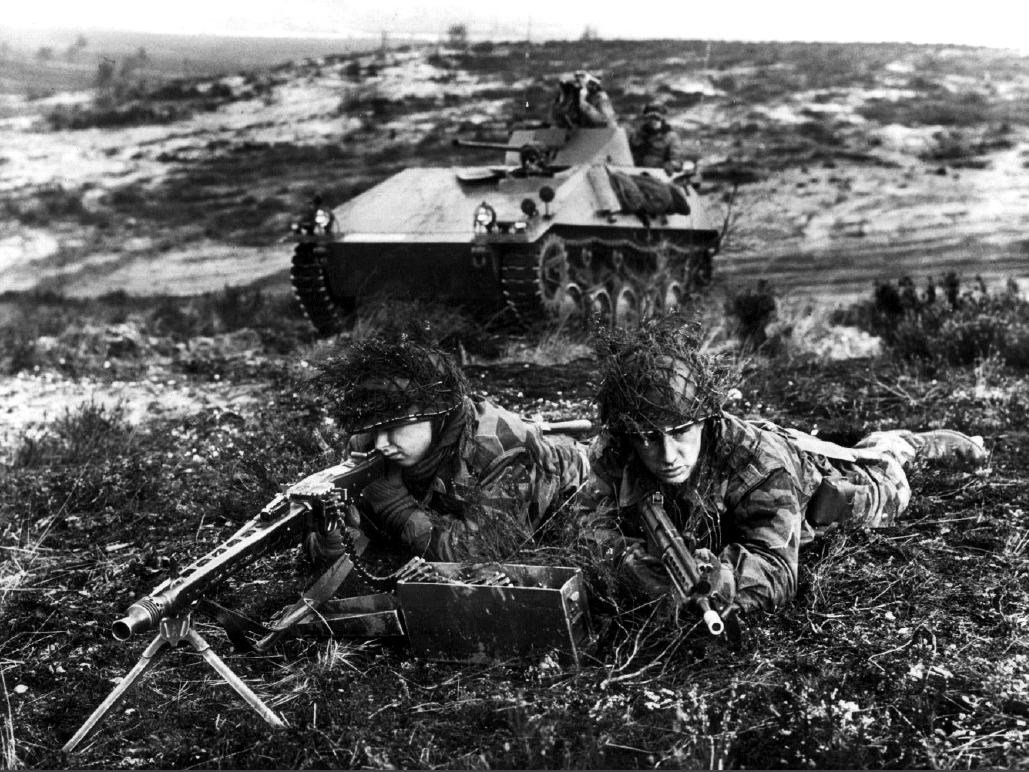 Field Maneuvers - W. German Army (Bundeswehr) with Machine gun „MG 1“ and Armored Reconnaissance car „SPz kurz Hotchkiss“, W. Germany, 1960.